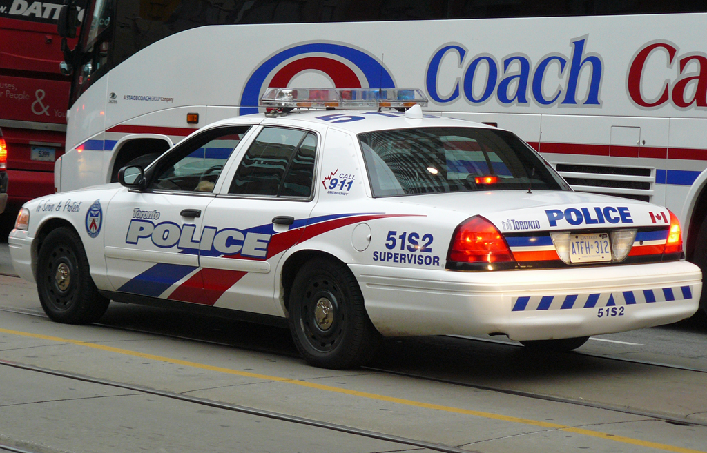 Police Car in Toronto